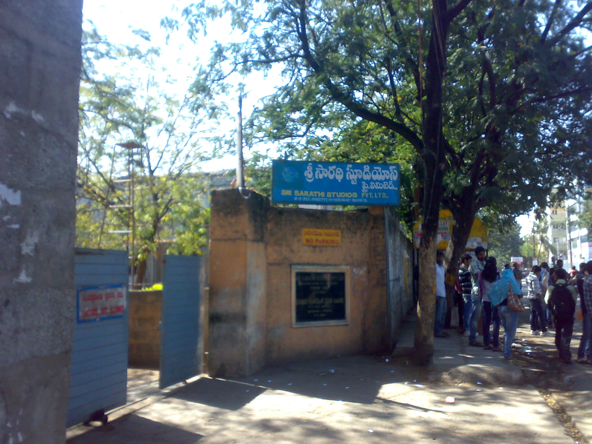 Saradhi studio, ammerpet,hyd